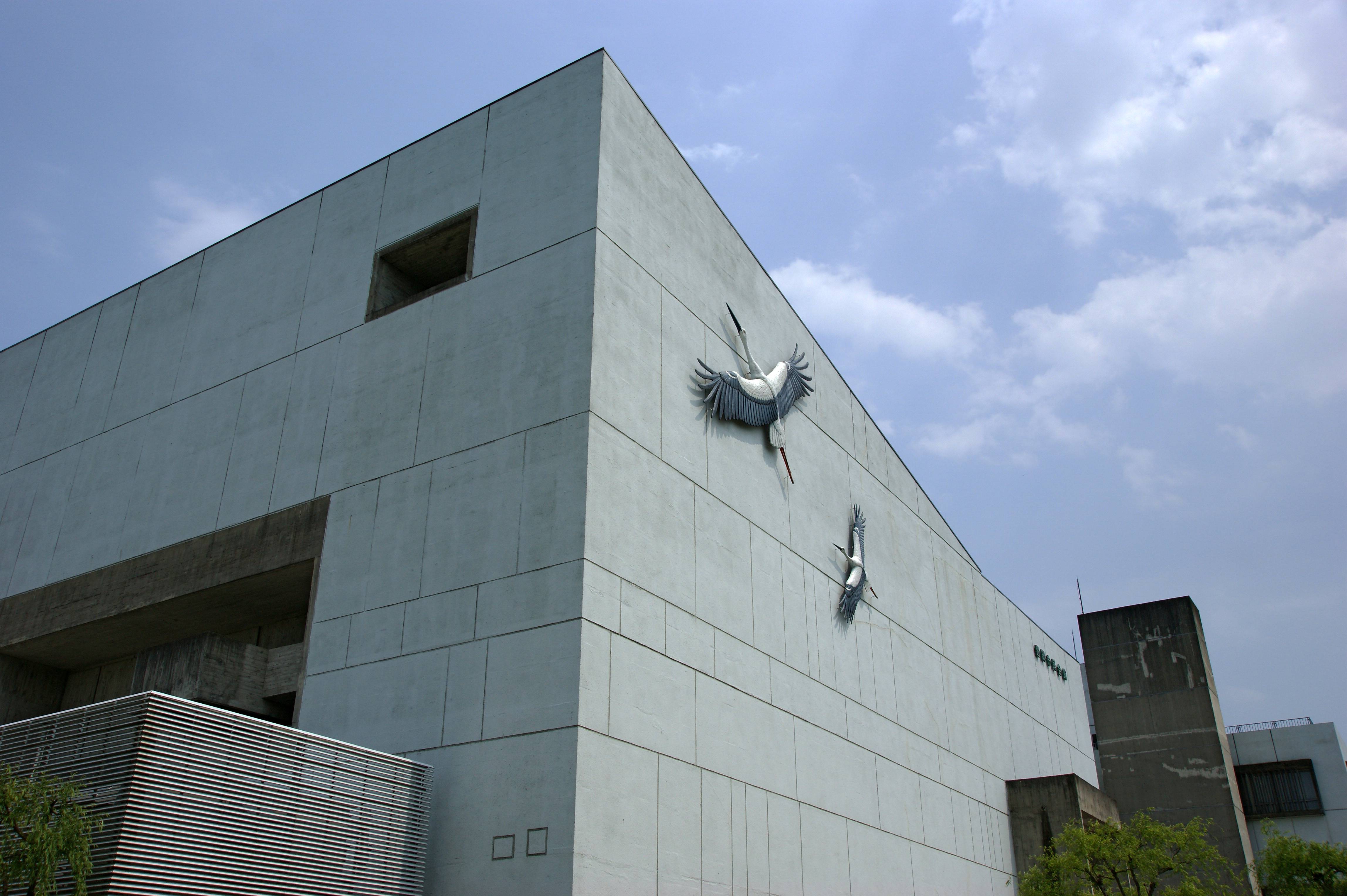 Toyooka Citizen's Hall, Toyooka, Hyogo prefecture, Japan